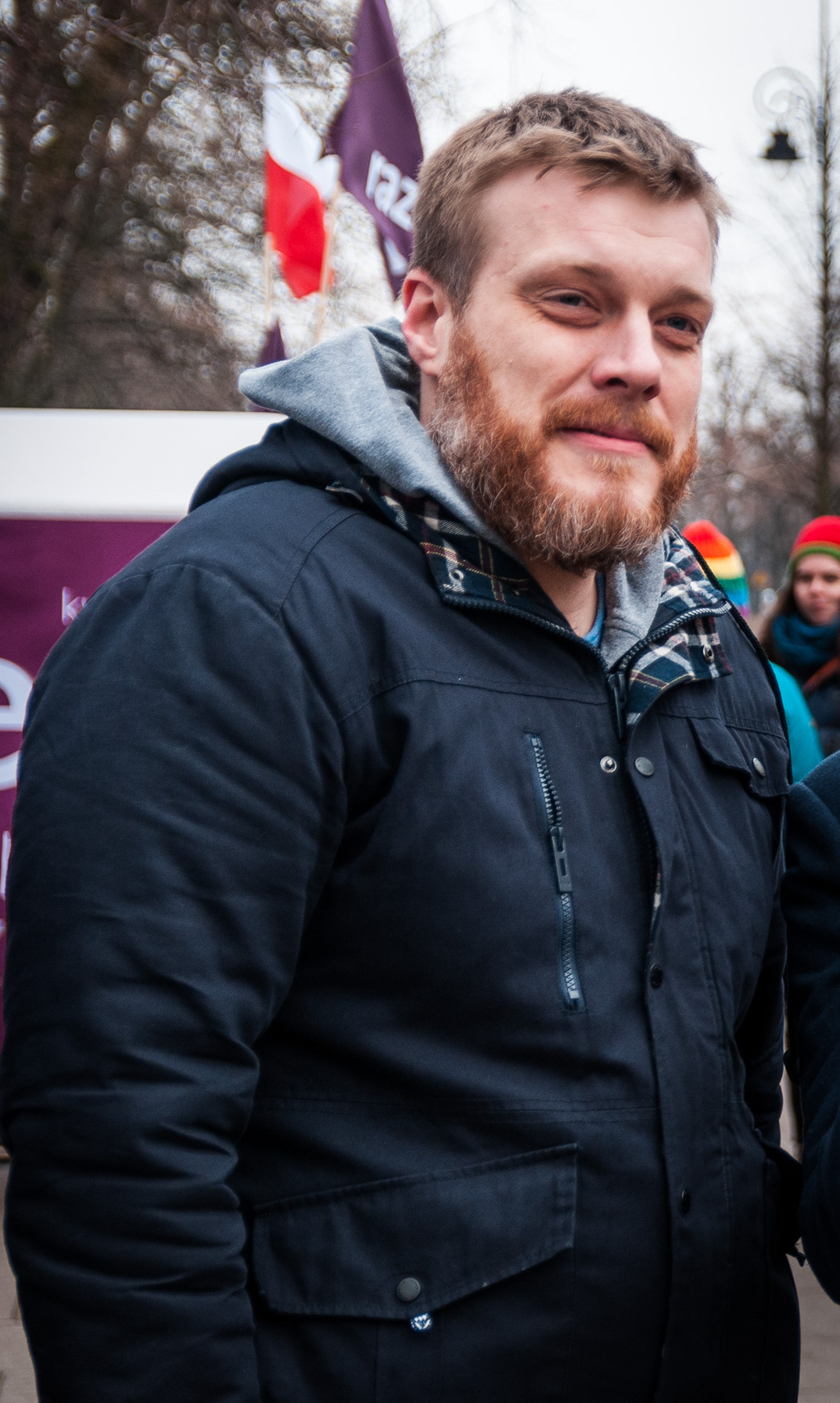 Adrian Zandberg during a protest at the Chancellery of the Prime Minister of Poland in the March of 2016.